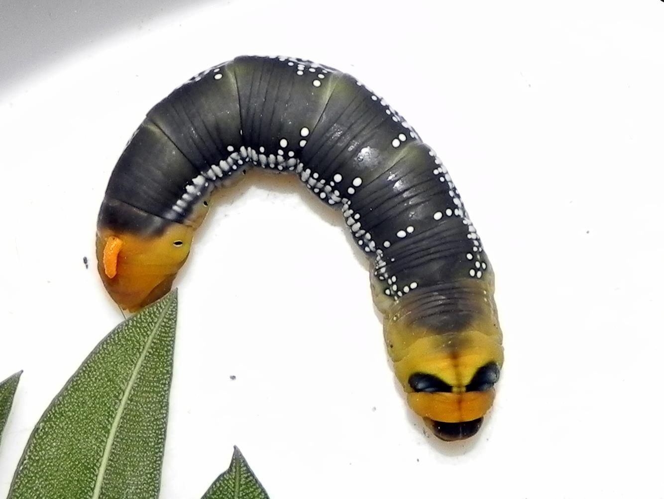 Oleander Hawk Moth caterpillar just before pupating